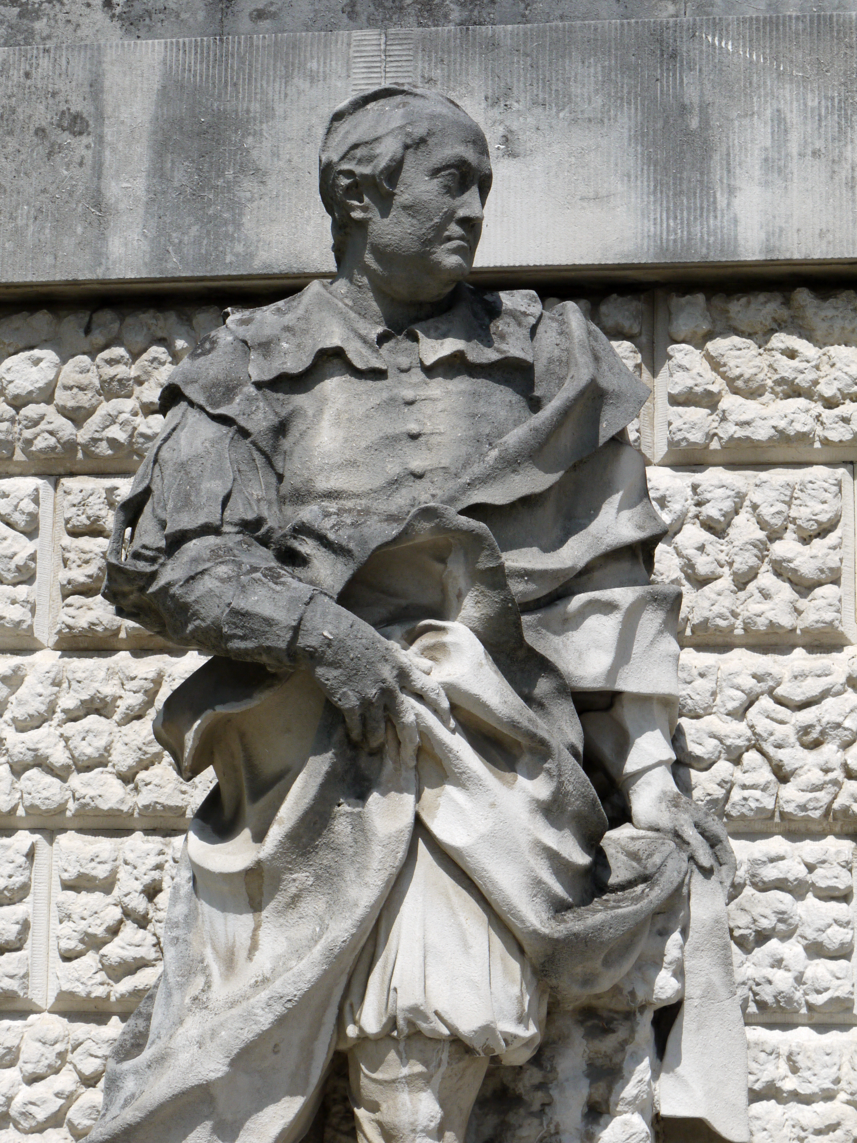 Statue of Andrea Palladio by John Michael Rysbrack, front of Chiswick House, London